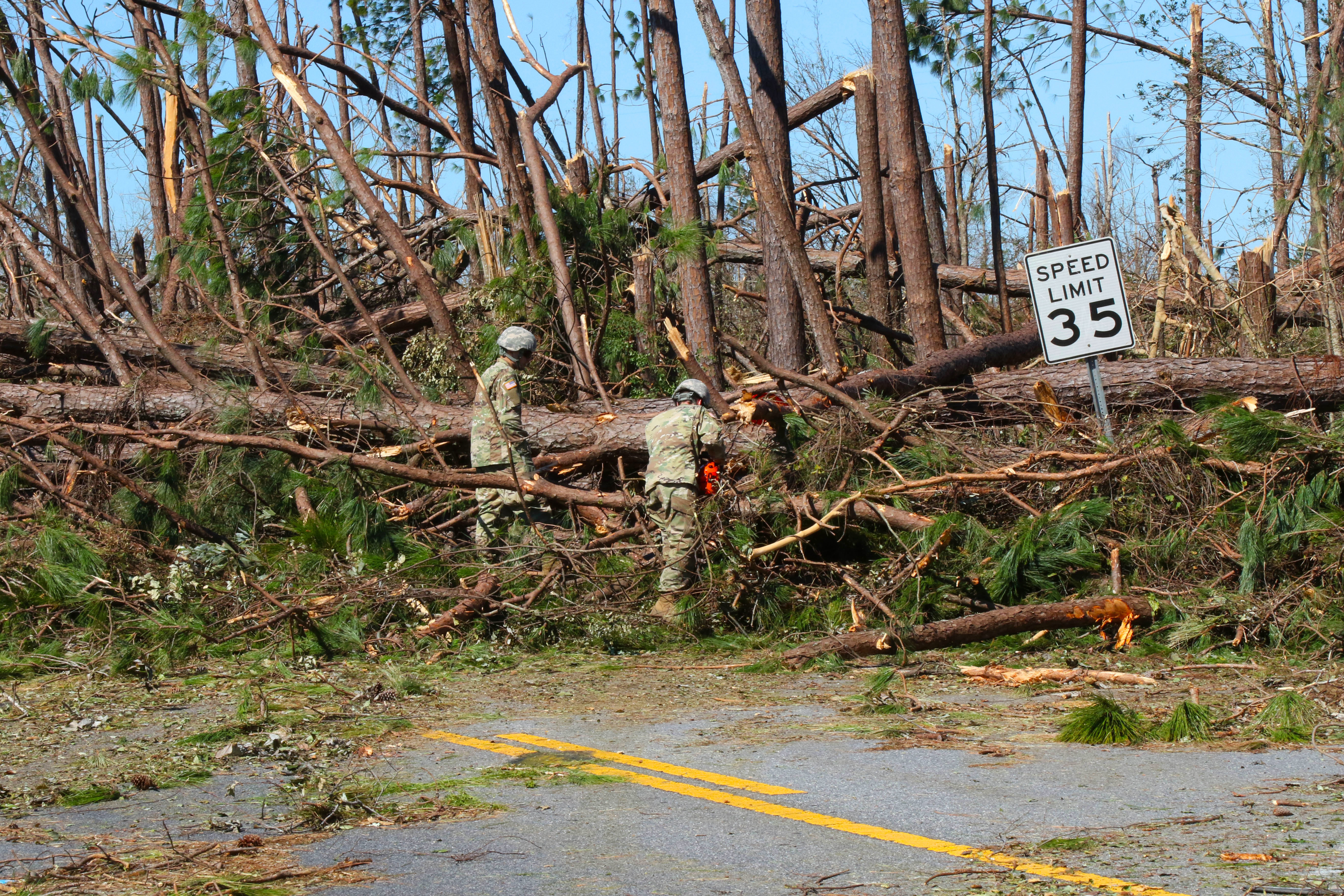 Soldiers of the 753rd Brigade Engineer Battalion, Alpha Co., from Tallahassee, Florida, clear the roadways on Oct. 13, 2018, for residents to pass through after Hurricane Michael left many impassable in Panama City, Florida. Soldiers and Airmen continue to provide critical capabilities to include road clearance, communication systems, and the delivery and distribution of life-saving supplies. (Photo by Pfc. Arcadia Jackson)